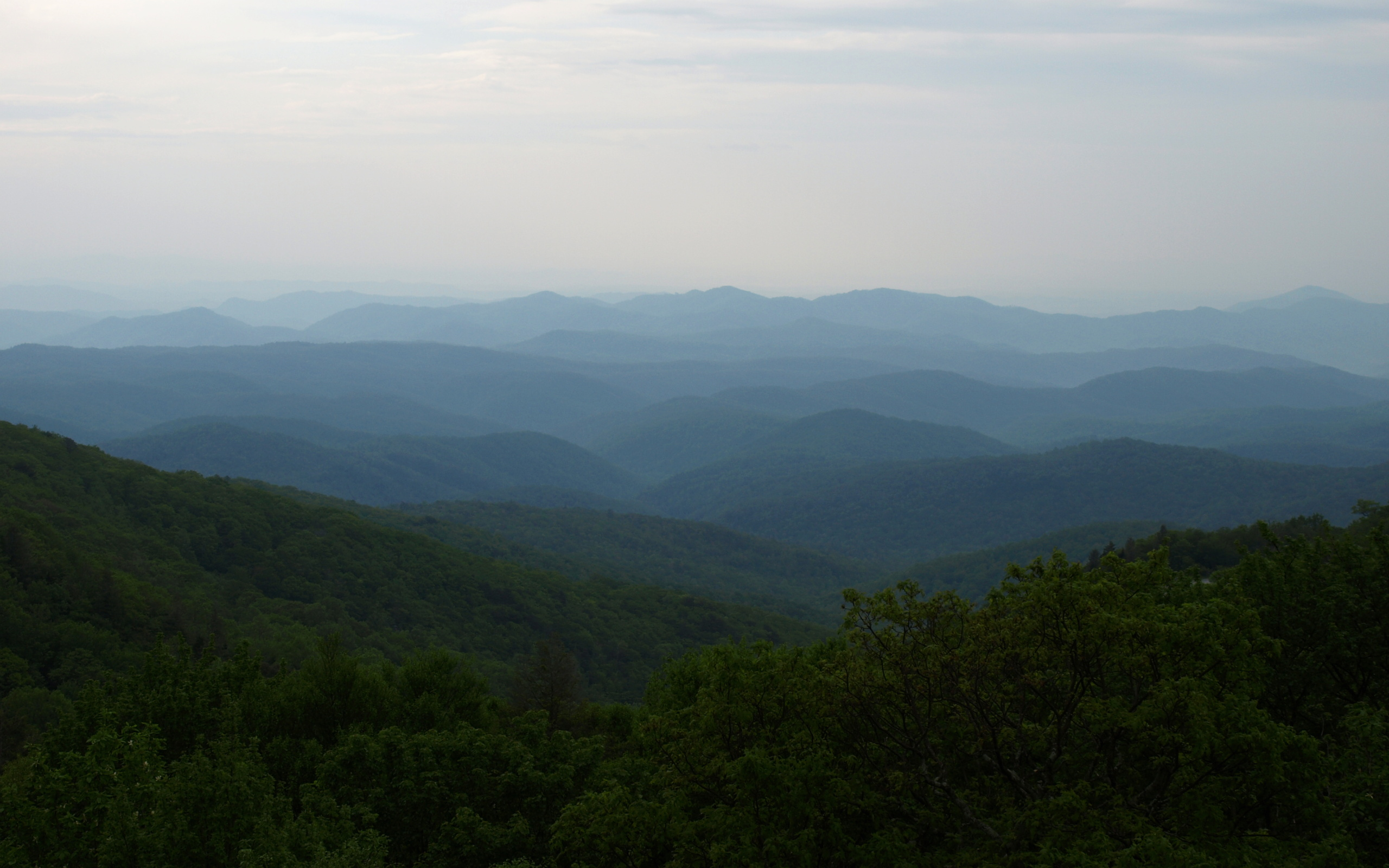 Mist rises from valleys and hollows as the sun rises over the Blue Ridge Mountains. Photo taken with an Olympus E-510 from the Stack Rock Overlook on the Blue Ridge Parkway in Avery County, NC, USA.